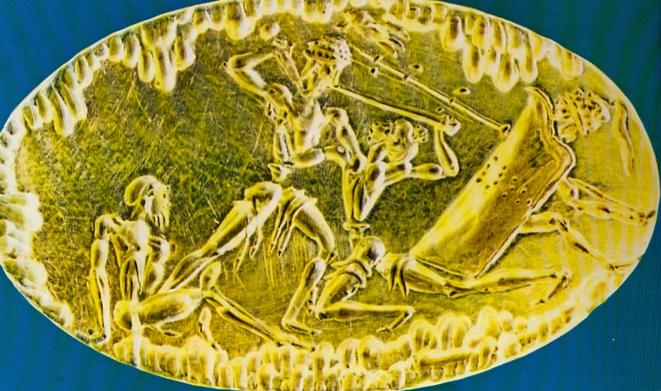 Ring found in Grave Circle, Mycenae, 16th century